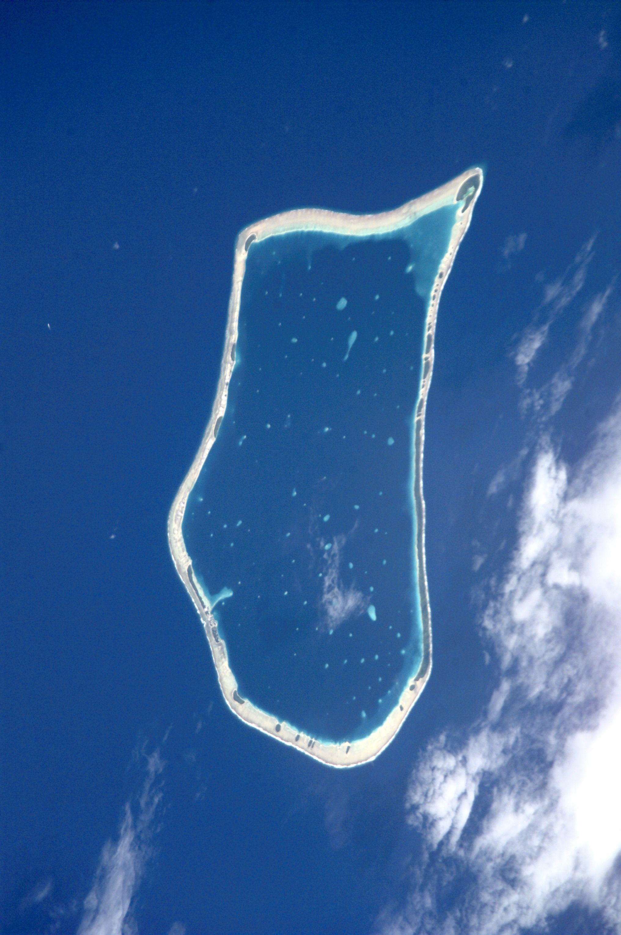 Satellite picture of the Nukunonu atoll in Tokelau.